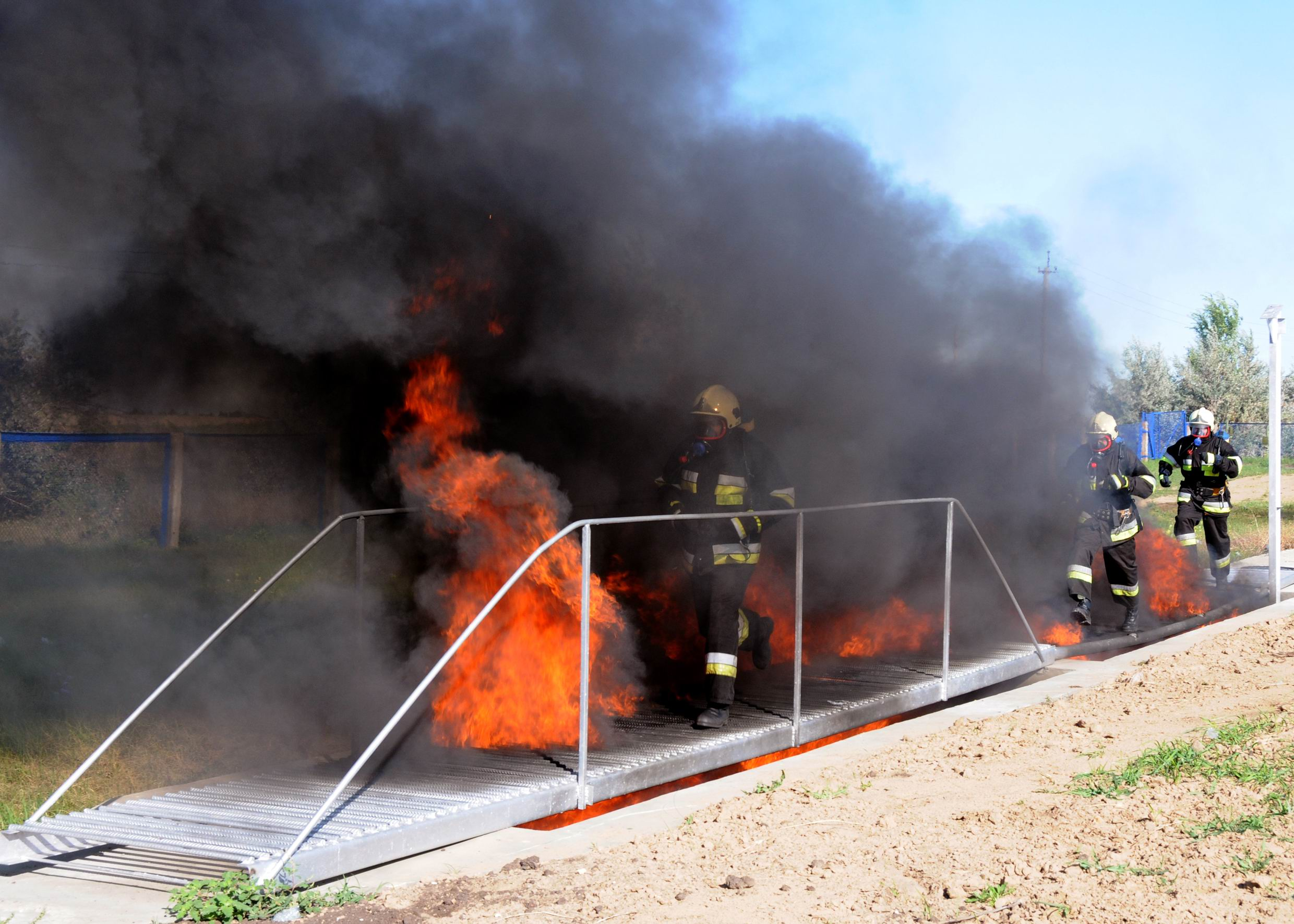 Fire training